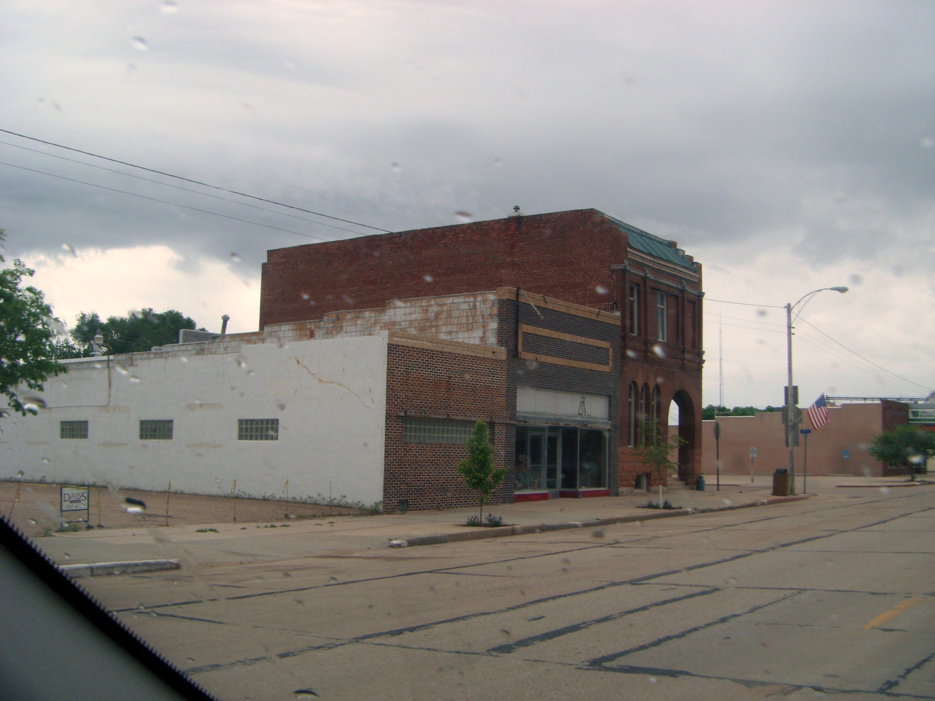 Buildings on the northeastern corner of the junction of Central Avenue (Nebraska Highway 61) and Third Street in downtown Grant, Nebraska, United States. These buildings are part of the Grant Commercial Historic District, a historic district that is listed on the National Register of Historic Places.